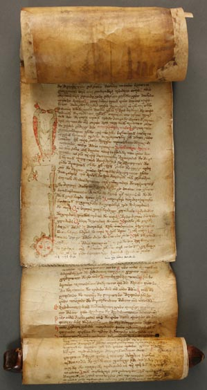 Georgian manuscript of XIII-XIV c.